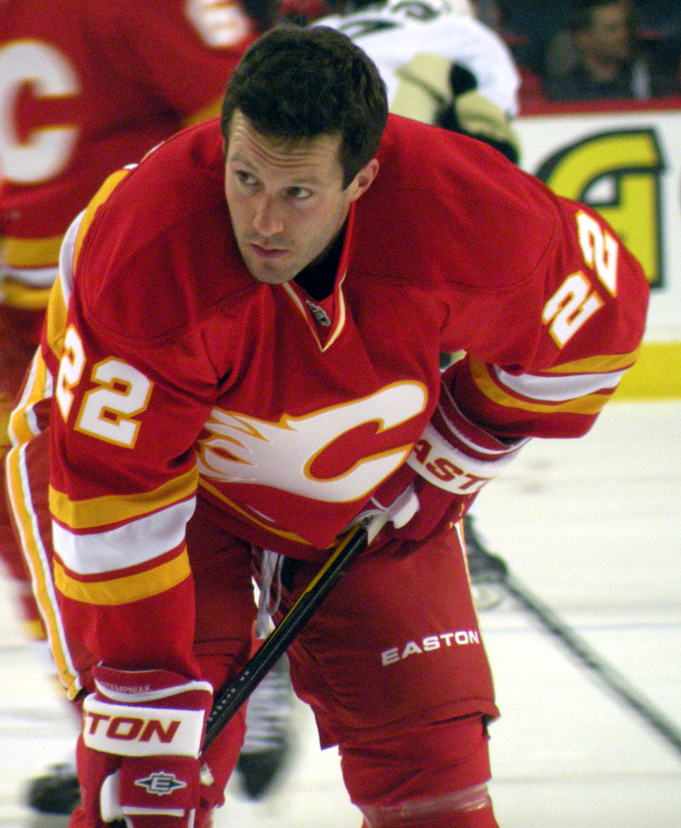 Calgary Flames forward Lee Stempniak prior to making his debut with the team, against the Pittsburgh Penguins, at Calgary.